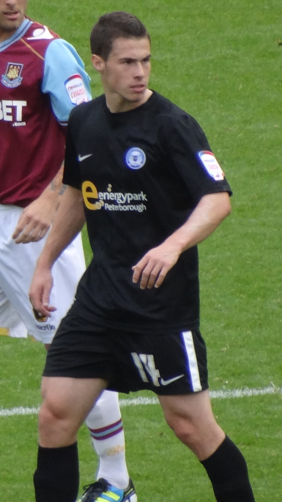 Tommy Rowe from West Ham vs Peterborough